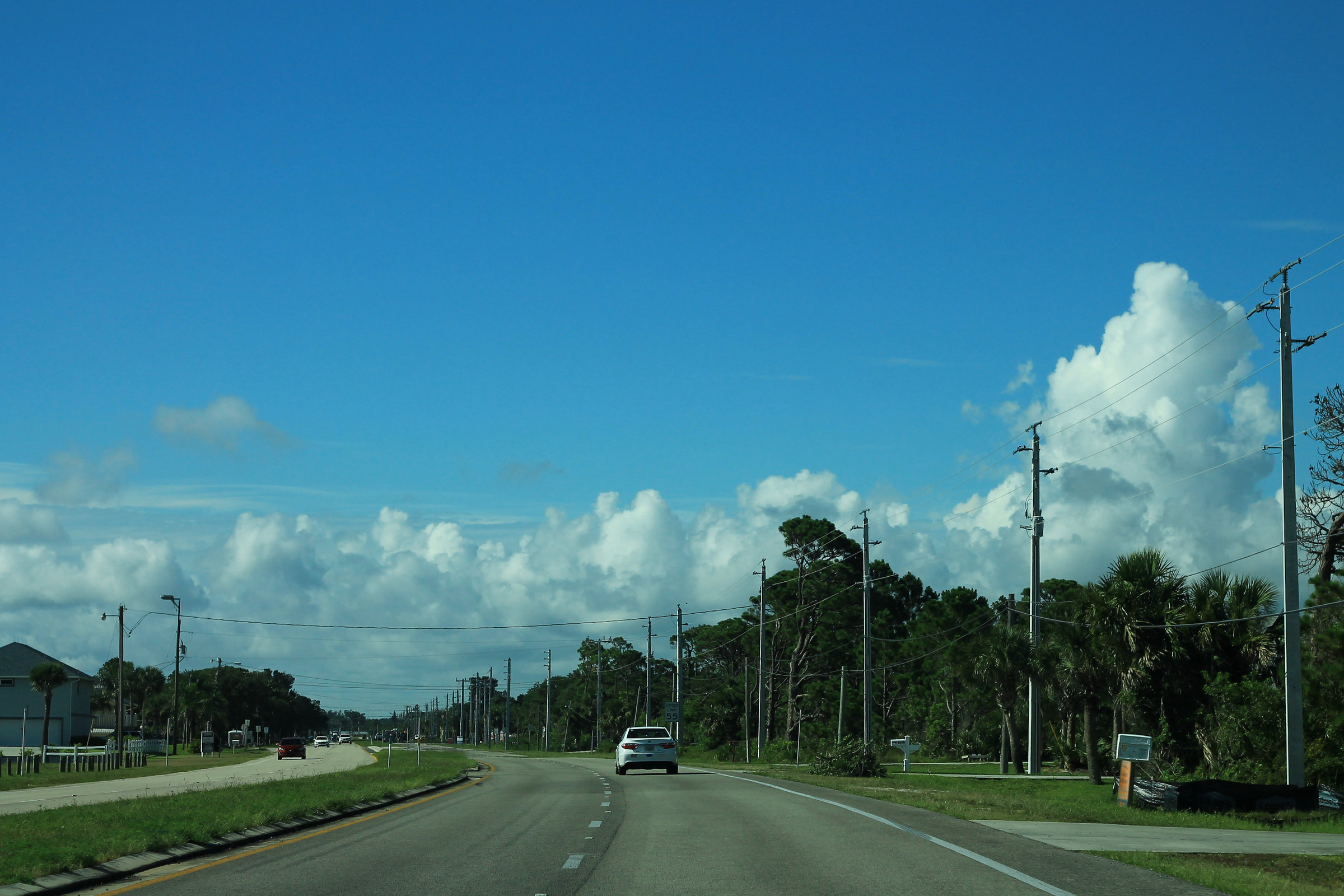 US1 South in Grant-Valkaria